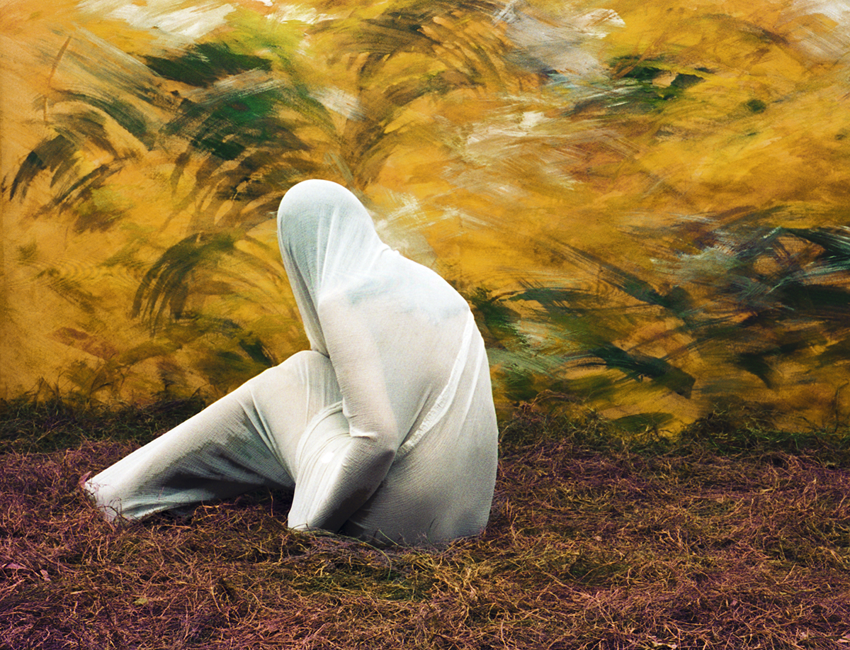 This work is from Conceptual Art Collection by Contemporary Indian Artist Diwan Manna, from Shores of the Unknown New